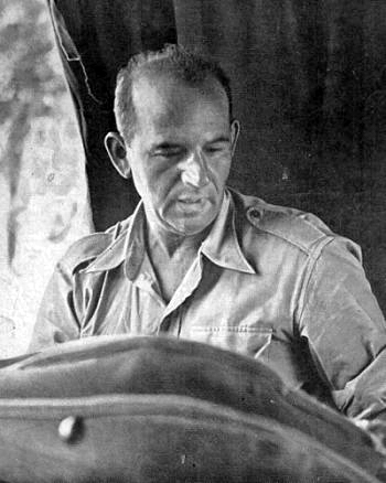 General David "Mickey" Marcus during the 1948 israeli War of Independence